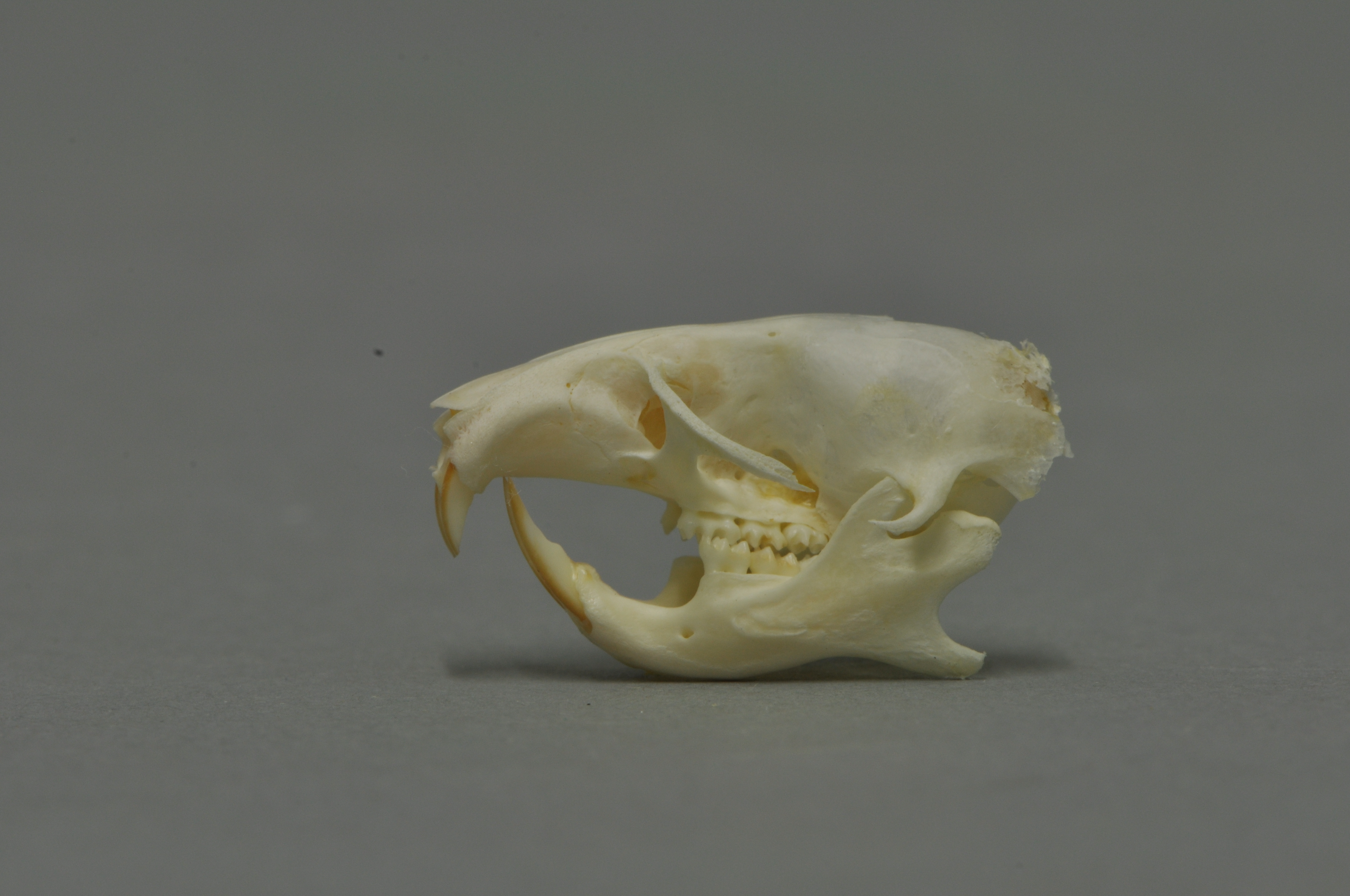 Golden hamster Mesocricetus auratus , skull, Coll. Museum Wiesbaden